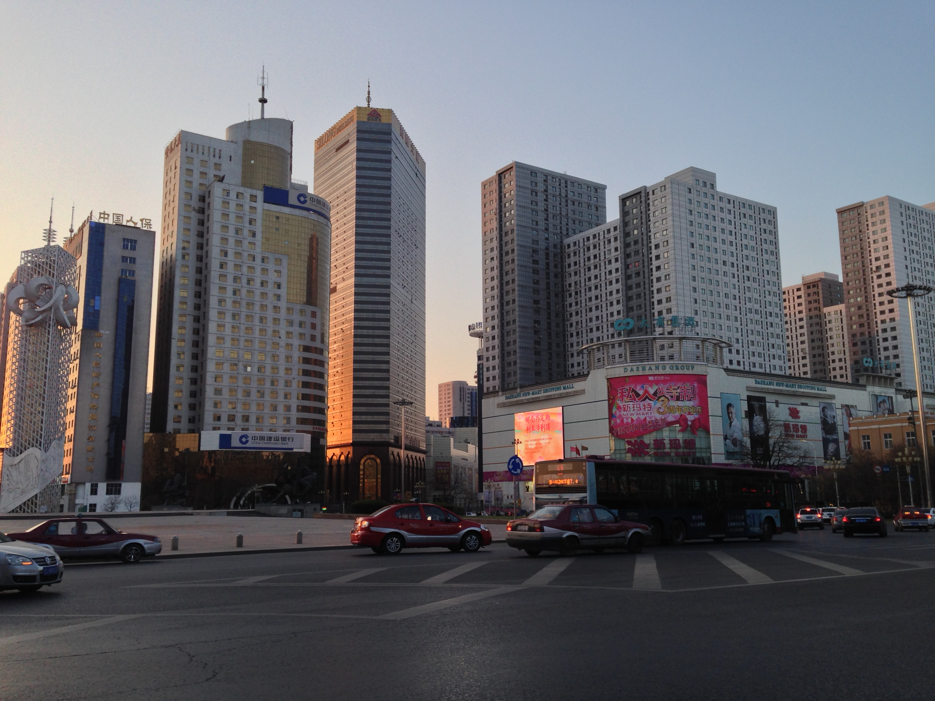 View of Anshan on Shengli Plaza. 胜利广场上的鞍山景色